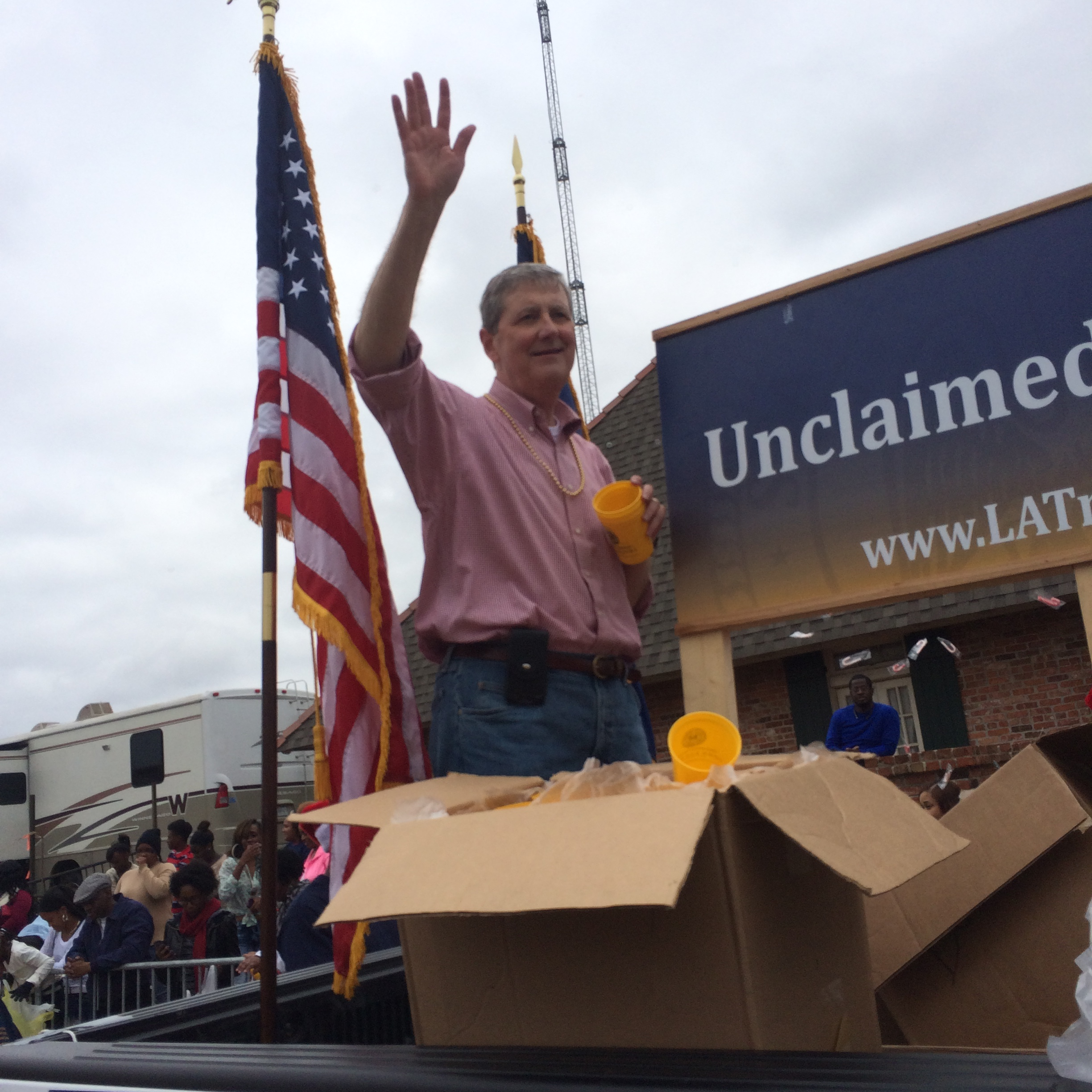 State Treasurer John Kennedy at the Natchitoches Christmas Parade 2014